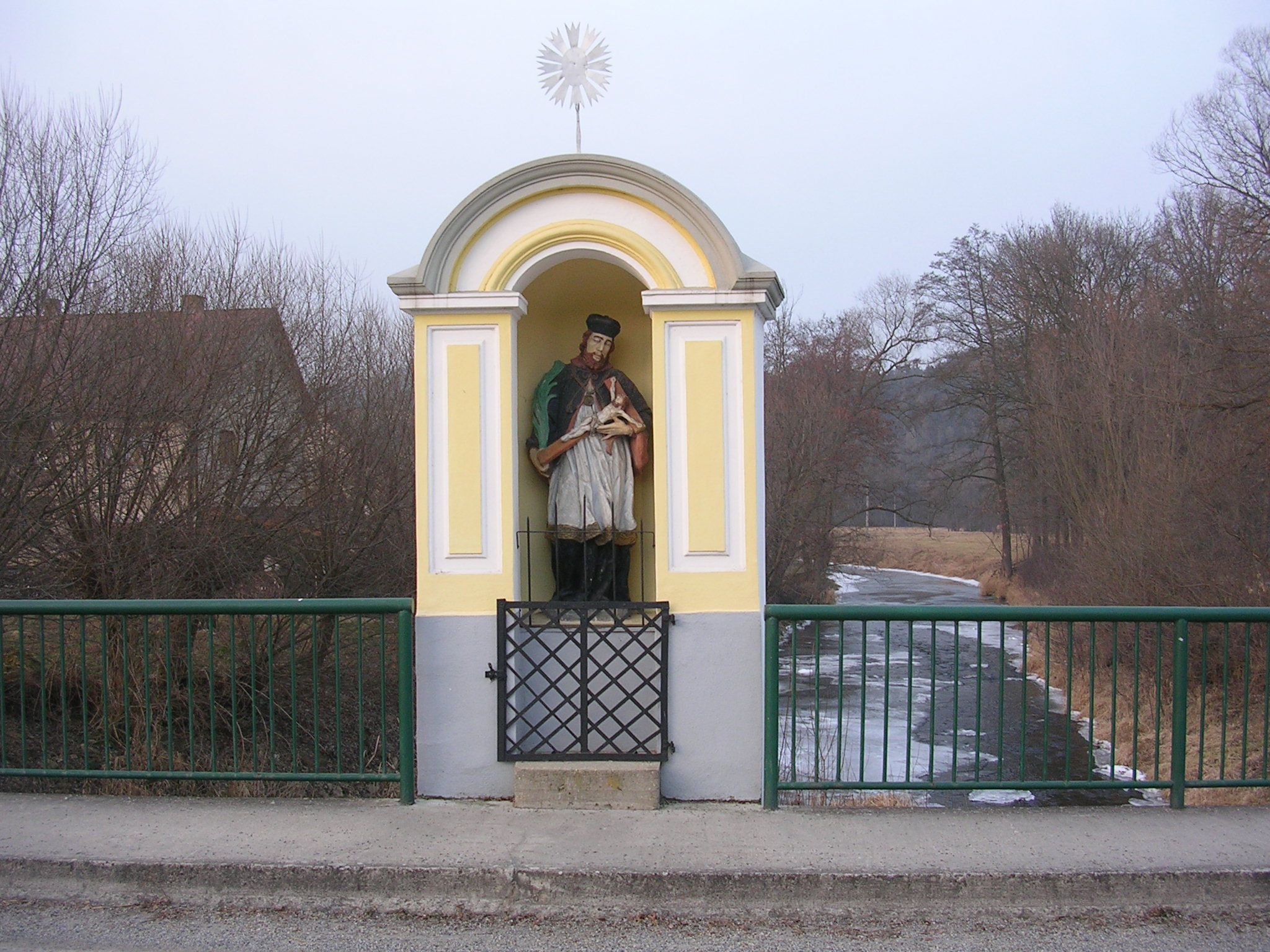 Malenice, the Czech Republic.